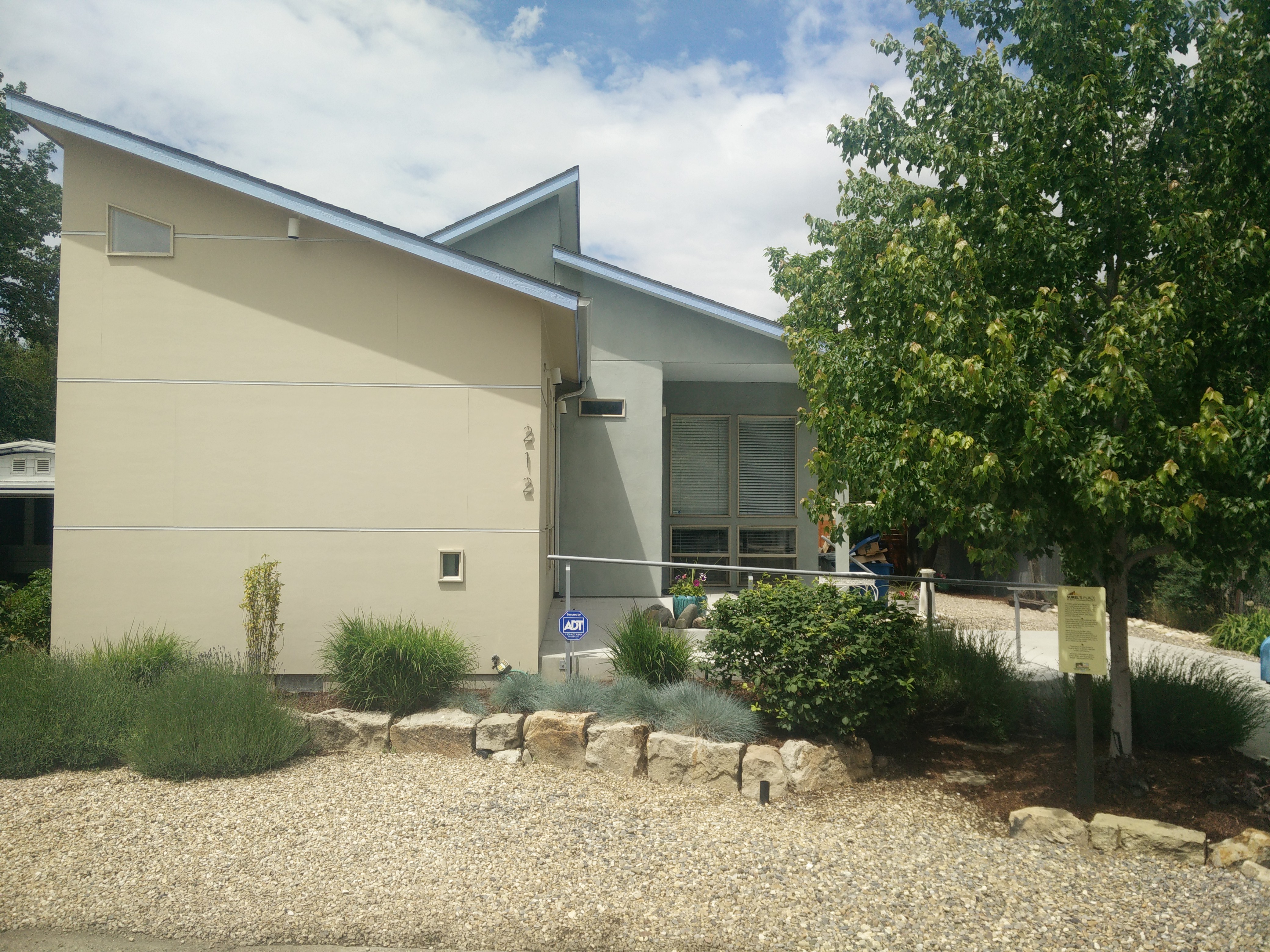 Surel's Place, an artist-in-residence program in Garden City, Idaho.